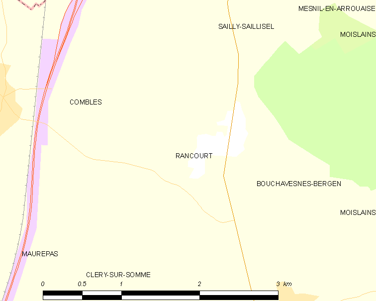 Map of French municipality Rancourt